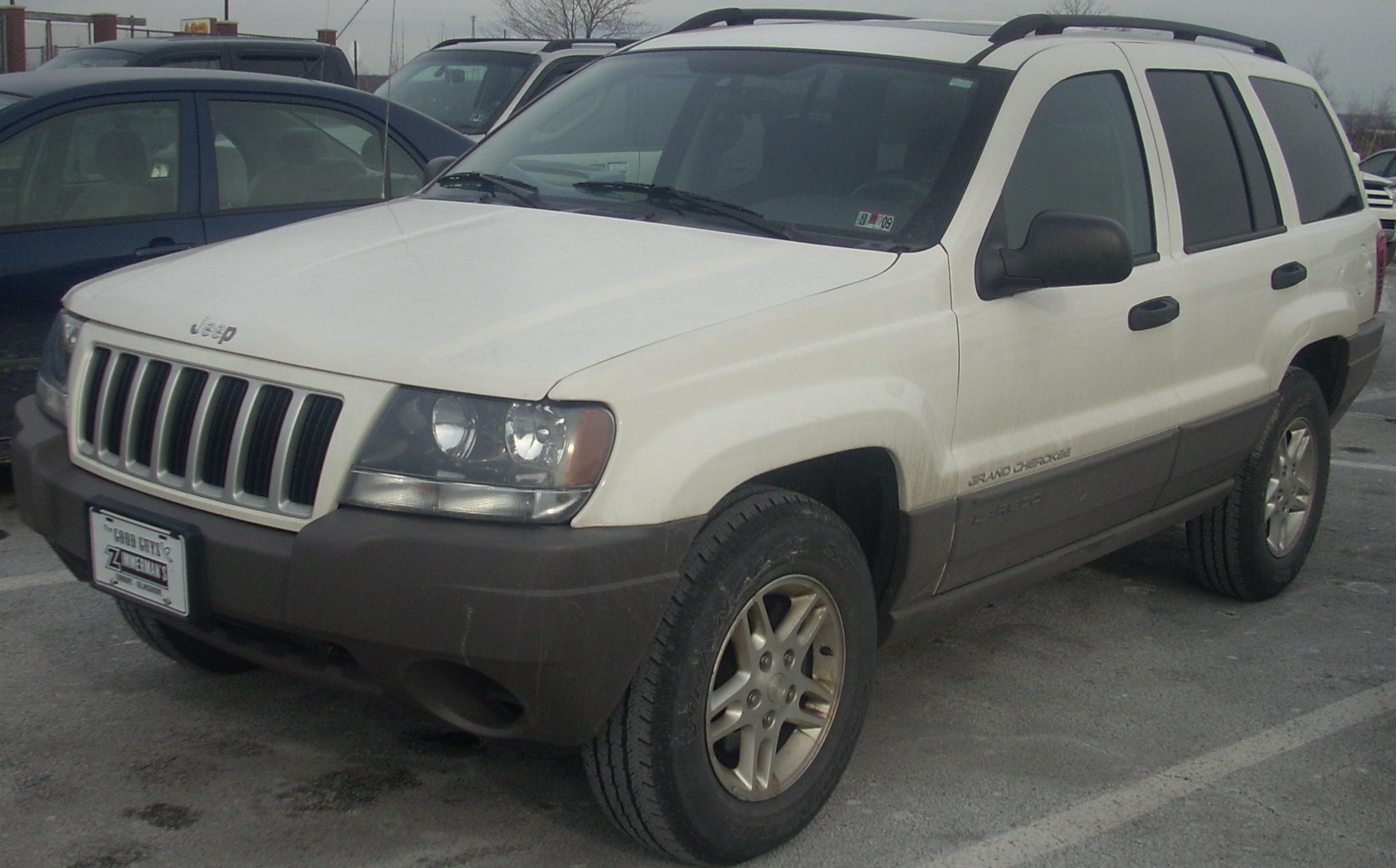 2004 Jeep Grand Cherokee photographed in Schuylkill Township, Schuylkill County, Pennsylvania, USA.